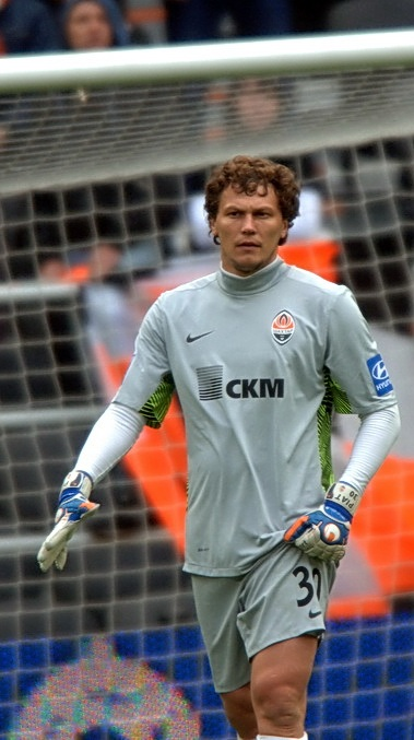 Andriy Pyatov Retuns Of Shakhtar Donetsk